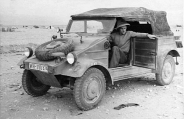 A captured VW Kübelwagen (WH-280374) near Fort Capuzzo.